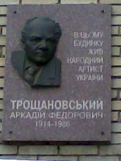 Plaques in Zaporizhia